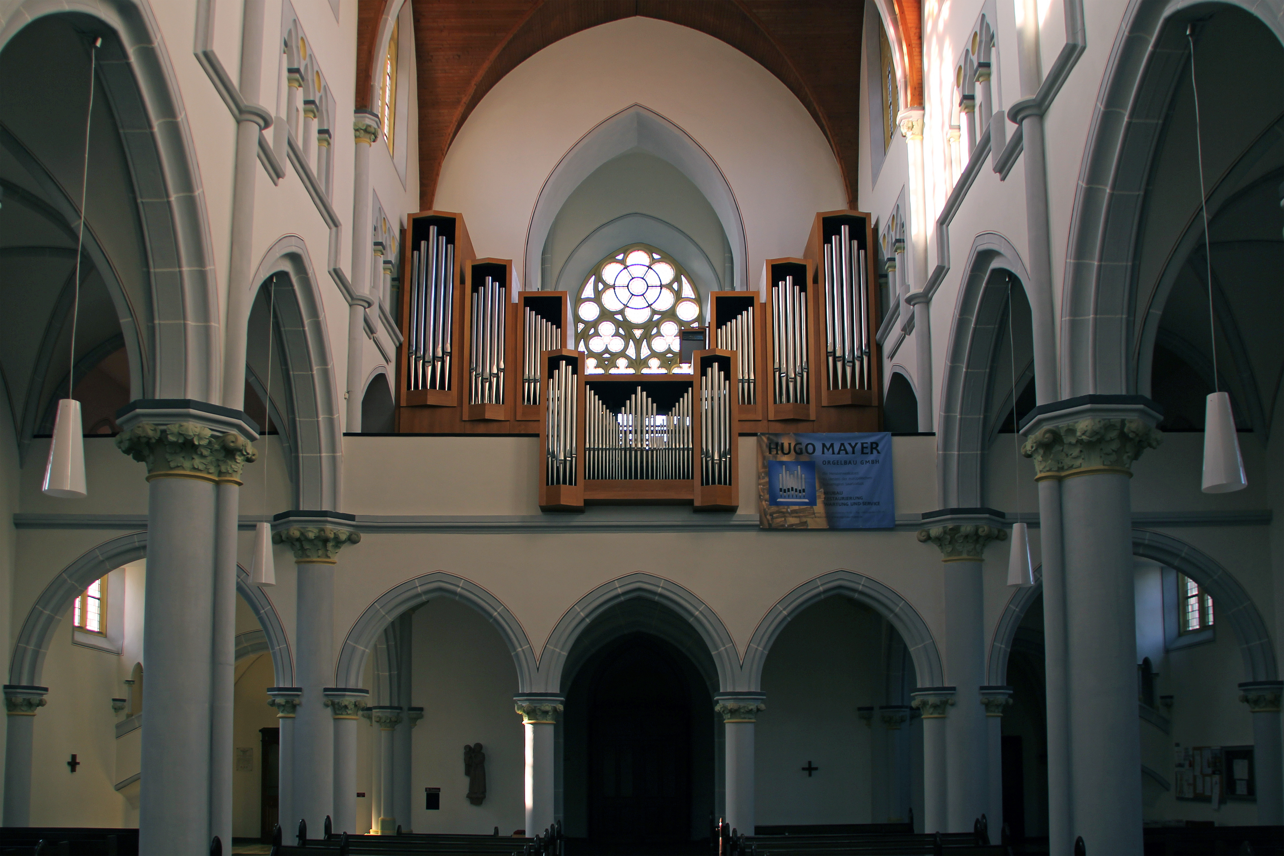 St. Peter and Paul church in Koblenz